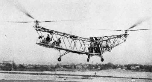 A U.S. Navy Piasecki XHRP-1 helicopter without skin in 1946-47.